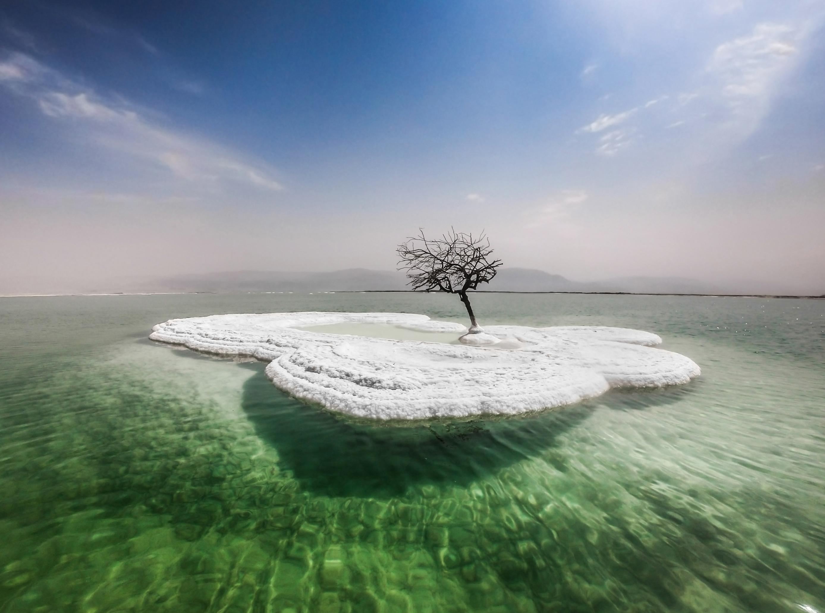 Dead Tree in Sea of Life is an installation artwork from 2017 by Amiram Dora, a travel guide from the nearby city Arad. The work consists of a tree planted on a salt pile in the Dead Sea. The purpose of the work is to show that as opposed to its common name, the Dead Sea is actually a place of rich tourist activity, healing and relaxation.